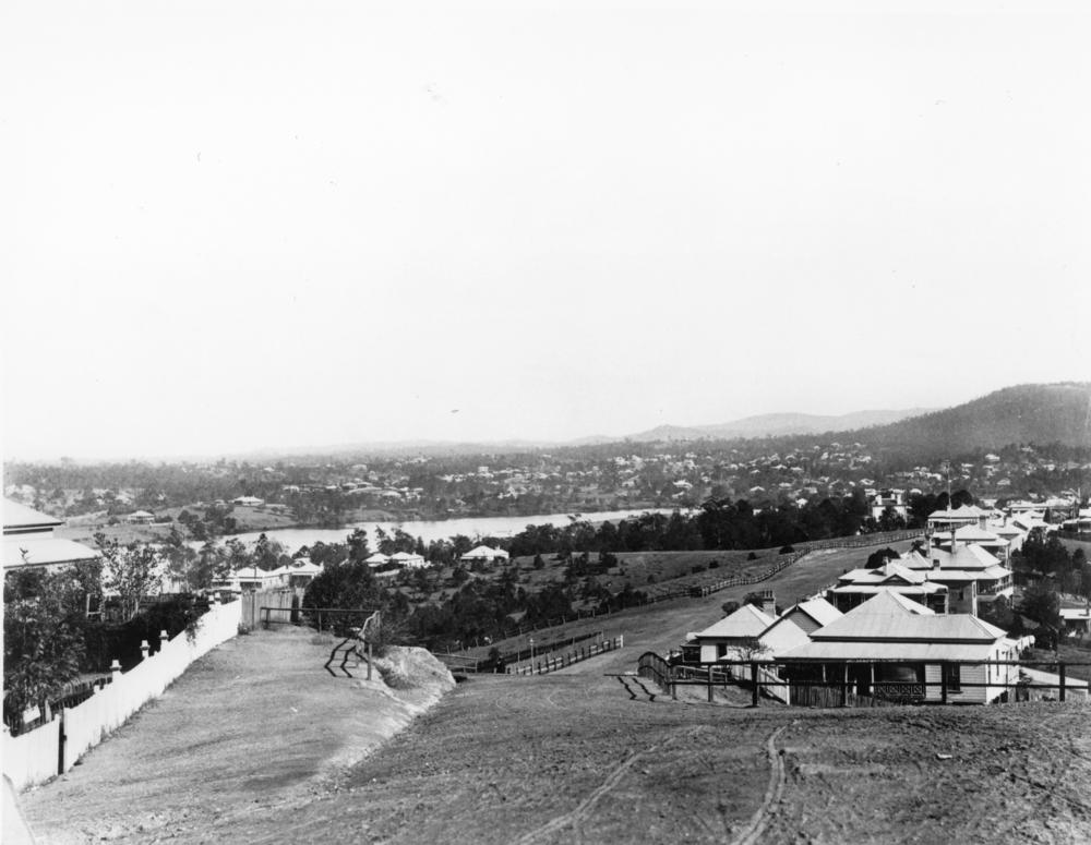 Panoramic view of the Brisbane River from Highgate Hill, Brisbane, ca. 1902 Western half of the view from Dornoch Terrace towards the Brisbane River. Eastern side of the panorama is negative number 142846.